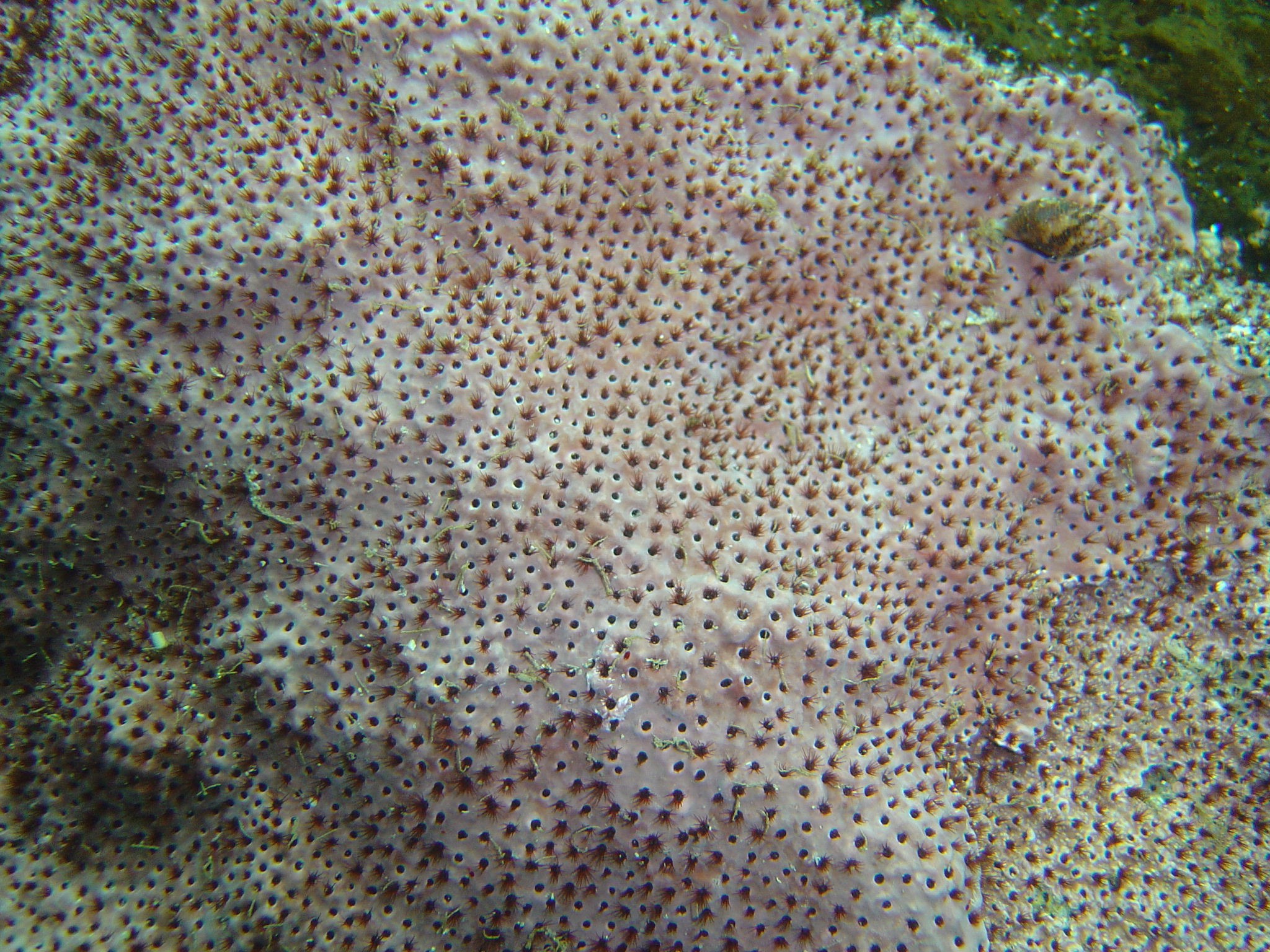 Black boring worms in crustose coralline alga at Pinnacle near Gordon's Bay